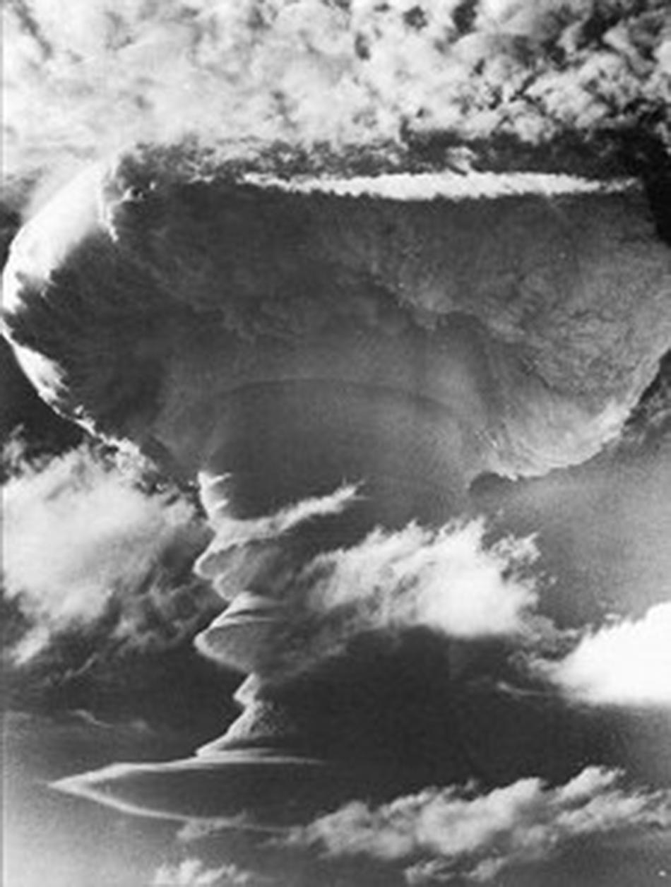 "The first British Hydrogen bomb is dropped near Christmas Island"